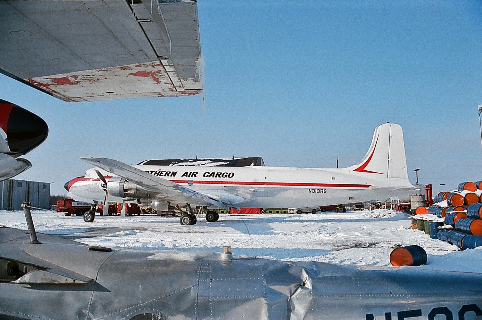 DC-6 N313RS Northern Air Cargo at ANC 11.4.1985. This aircraft crashed on 20.7.1997 at Russian Mission airfield, AK, after losing a wing in flight. All 4 on board were killed.